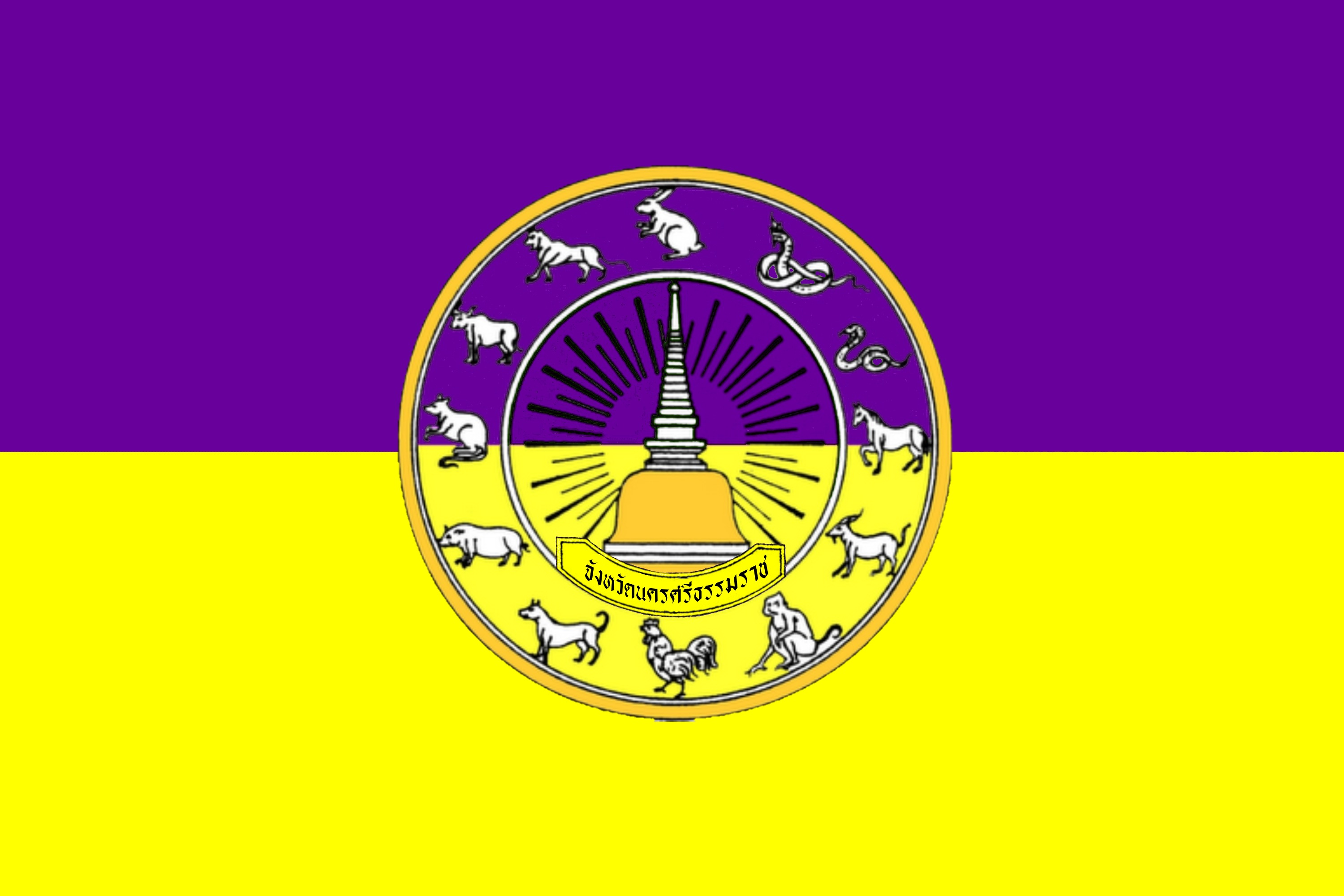 Flag of Nakhon Si Thammarat Province